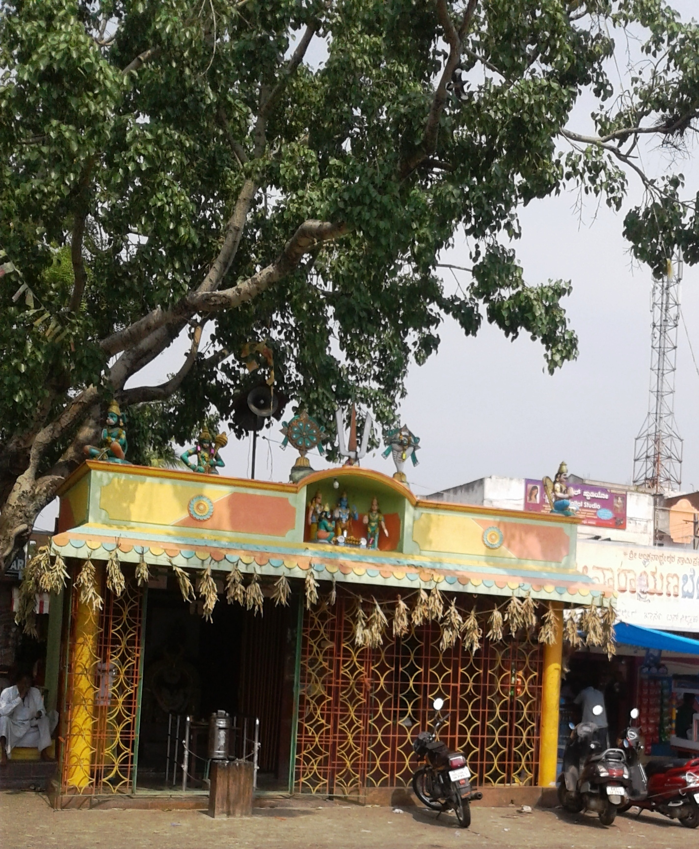 Ramanagara district, Karnataka state, India.